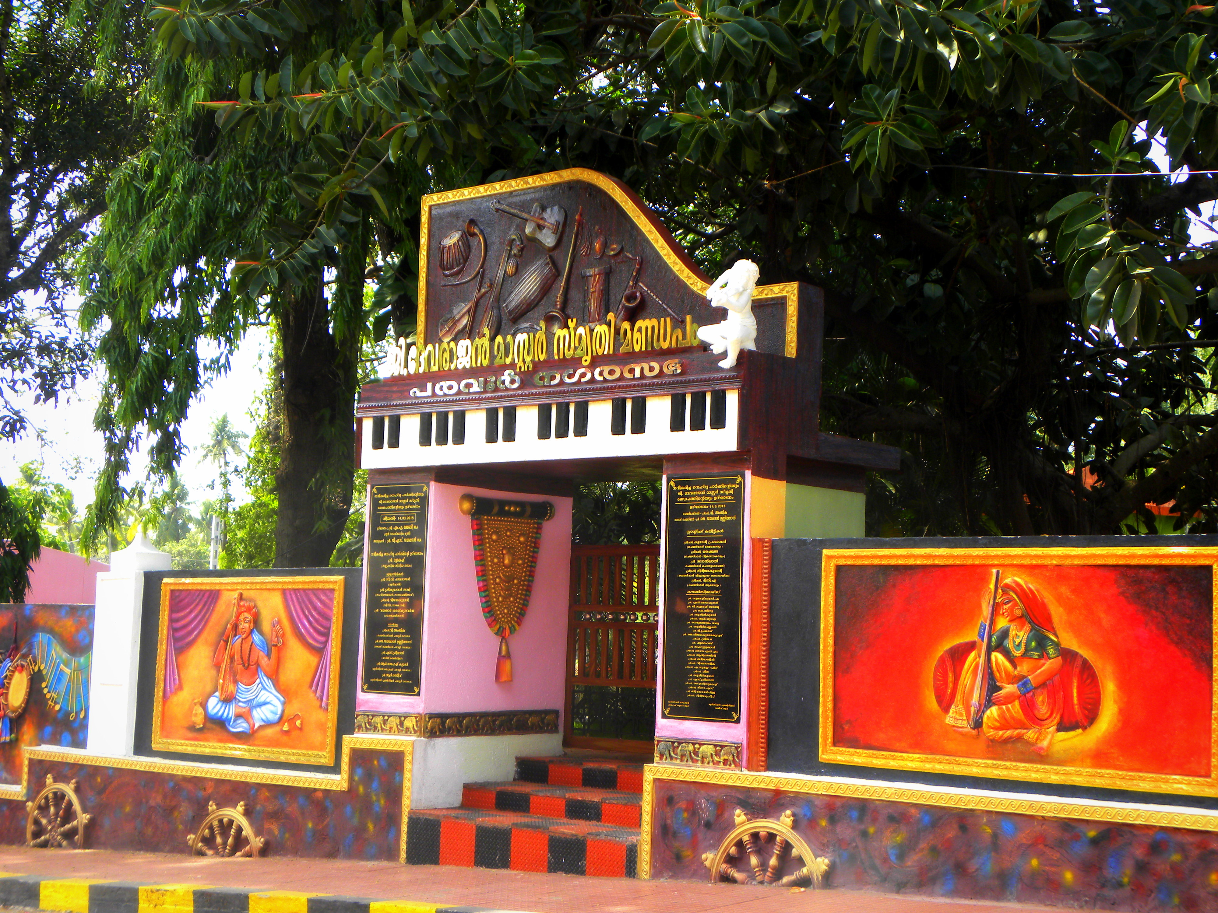 Nehru Park, Paravur - It is the only public park in Paravur Municipality, Kollam district.